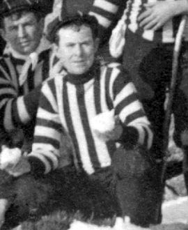 Photograph of Tom Nelson in 1906